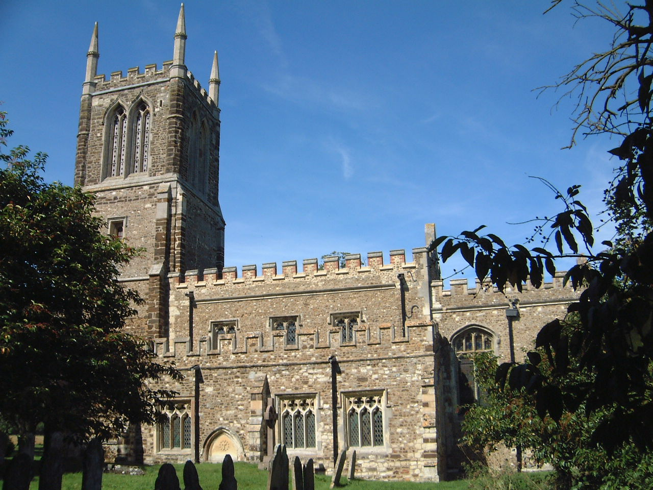 Photograph of St John Church at Cockayne Hatley, Bedfordshire, taken ca. 2000.